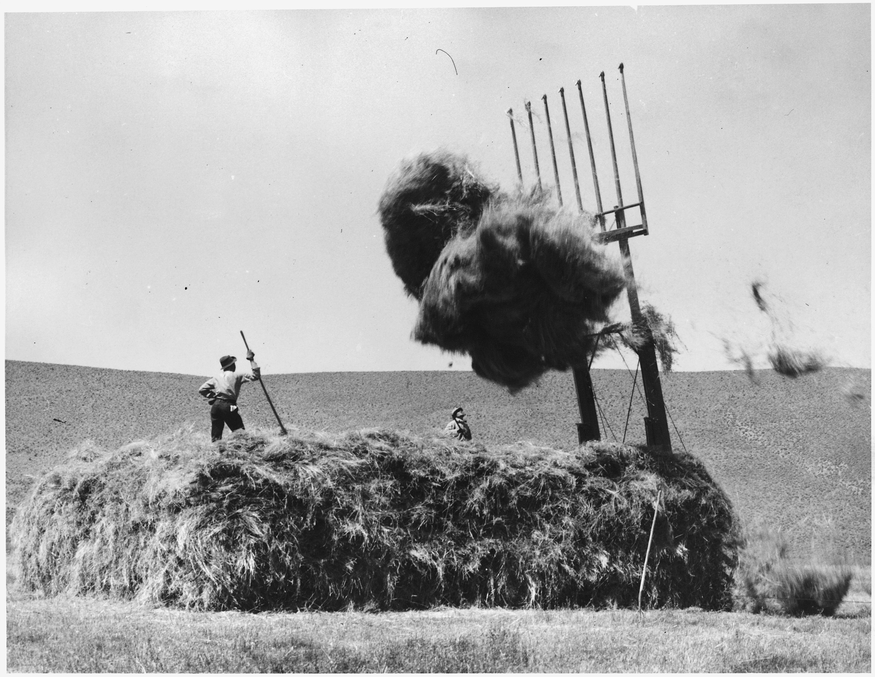 Scope and content: Records document the activites of George LaVatta as Organizational Field Agent in the 1930's. Included are records and photos conerning construction at various agencies, the reorganization of the Bureau of Indian Affairs, and photos and reports of various Indian schools.